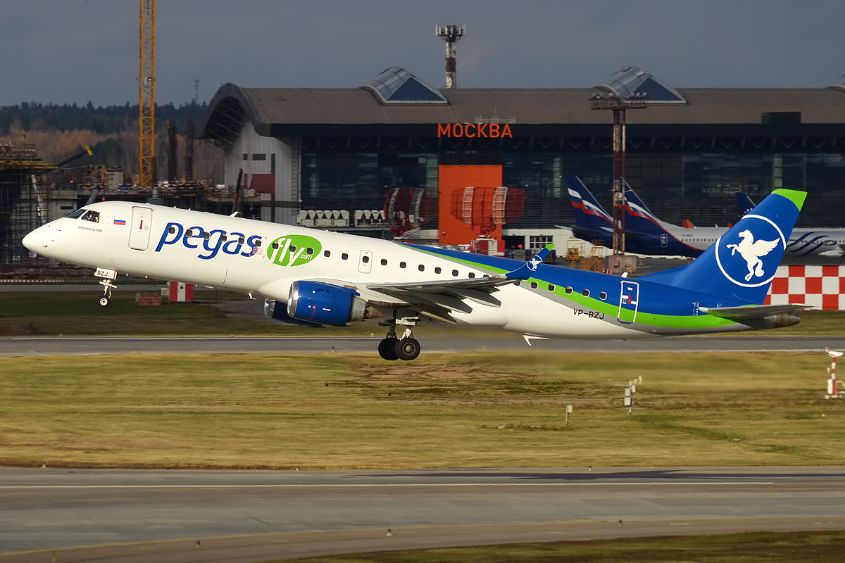 Pegas Fly, VP-BZJ, Embraer ERJ-190AR